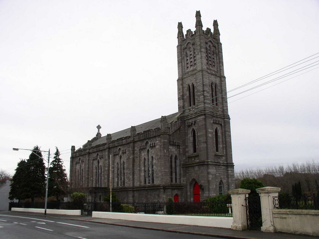 The Navity Roman Catholic Church, Chapelizod